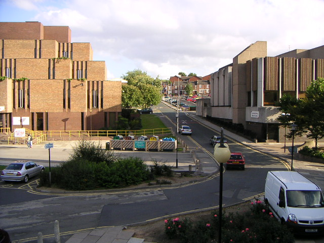 Norfolk Street, Rotherham. View of Norfolk Street, looking south-east. The council offices of Norfolk House can be seen on the left, and Rotherham Central Library and Arts Centre is on the right.